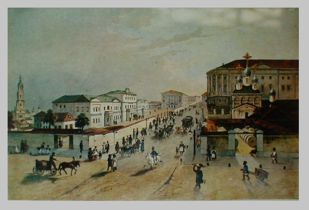 Imperial Post in the Myasnitskaya Street in Moskow